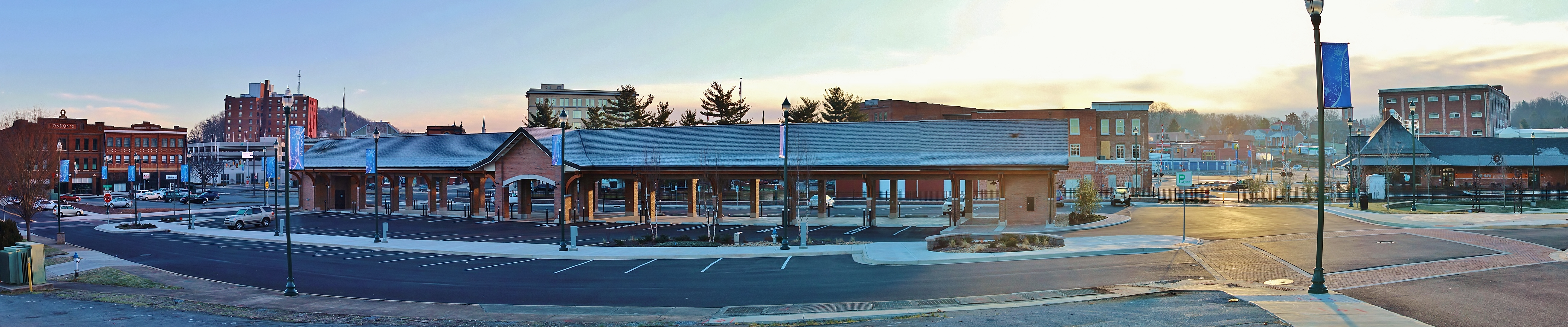 Farmer's Market and Event Facility in heart of Downtown Johnson City, TN